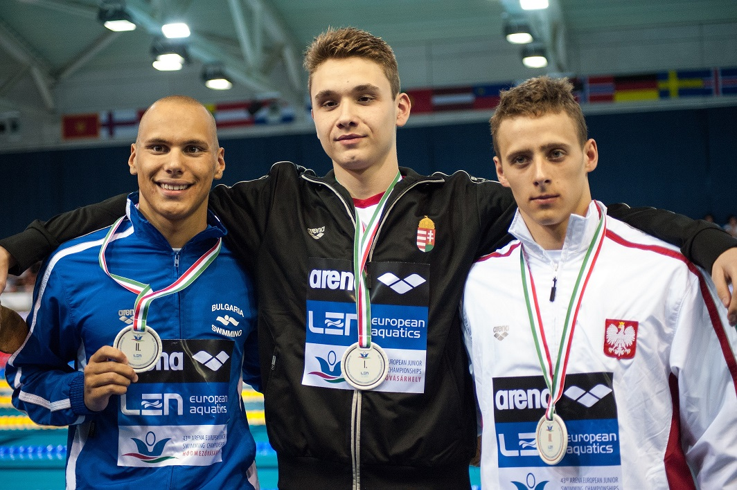 Antani Ivanov (BUL), Kristóf Milák (HUN) and Damian Chrzanowski (POL). 43. Arena European Junior Swimming Championships - 200m Butterfly Men. Final